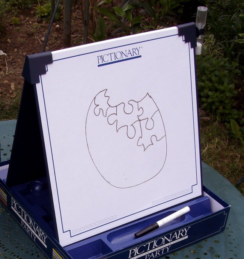 Jeu Pictionary Party, spécial Wikipédia :^)